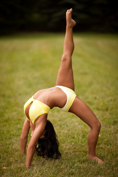 Petra's Yoga Poses around the world